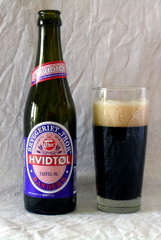 A Danish hvidtøl. This beer is the traditional beer of Denmark. It is dark, spicy and very sweet and hvidtøl has a low alcohol percentage around 2%. This makes it a favorite for kids in particular. For many years hvidtøl has only been seen as a curiosity to be had around Christmas and in particular accompanying Risengrød. In the kitchen, hvidtøl is used to make Øllebrød - a traditional rye porridge served for breakfast in Denmark.